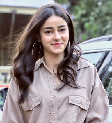 Ananya Panday in 2019